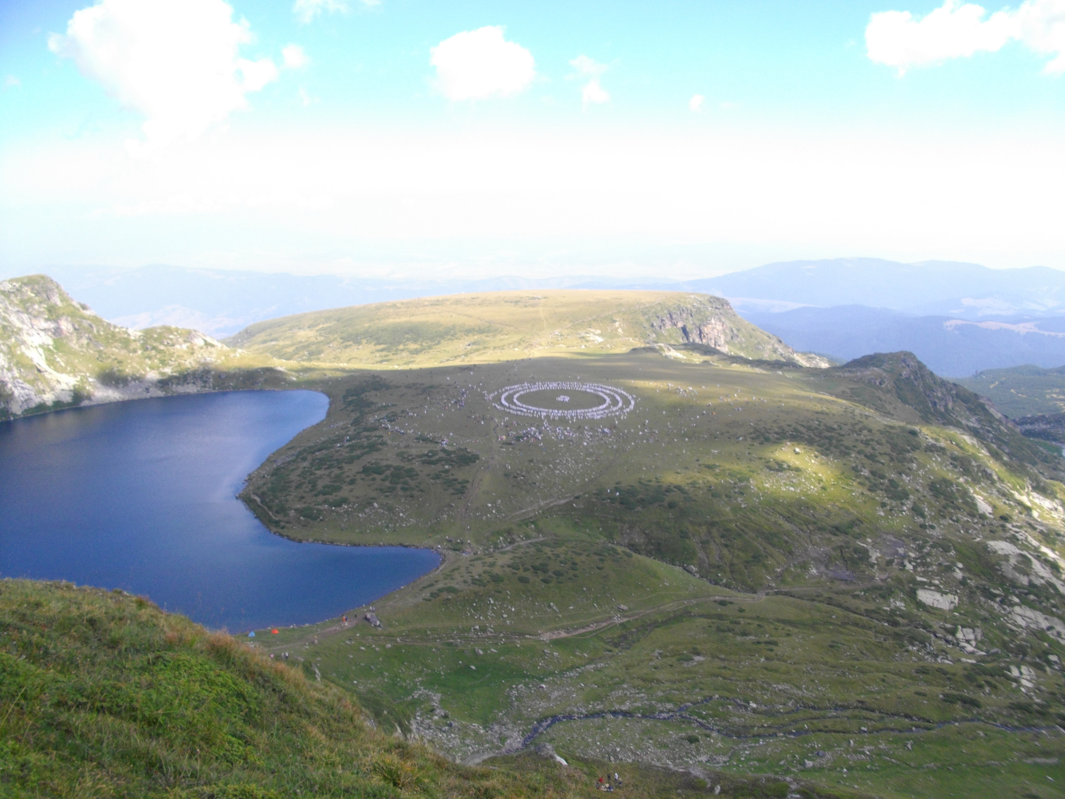 Paneurhythmy Dance in Rila Mountain